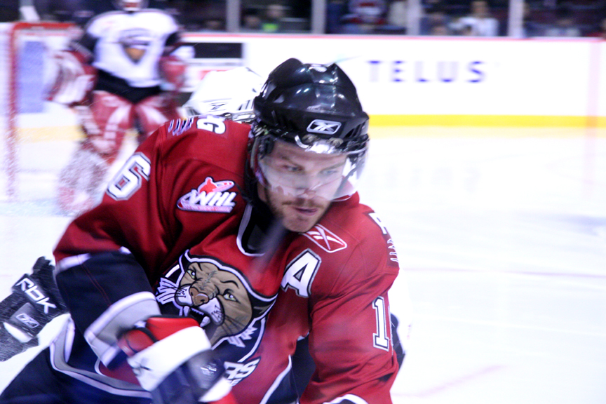 Prince George Cougars and Vancouver Giants had a Round 3 Home Game 1 last night. Giants won 3-2. Great game!